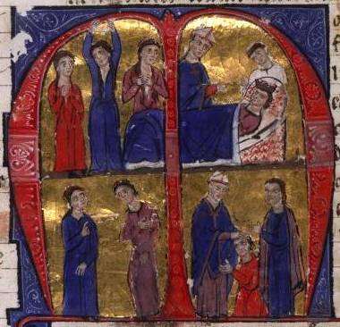 William of Tyre's Historia and Continuation, 13C manuscript from Acre. Bibliotheque Nationale Française, Richelieu Manuscrits Français 2628 Copyright-free, from Bibliotheque Nationale Française site Gallica (